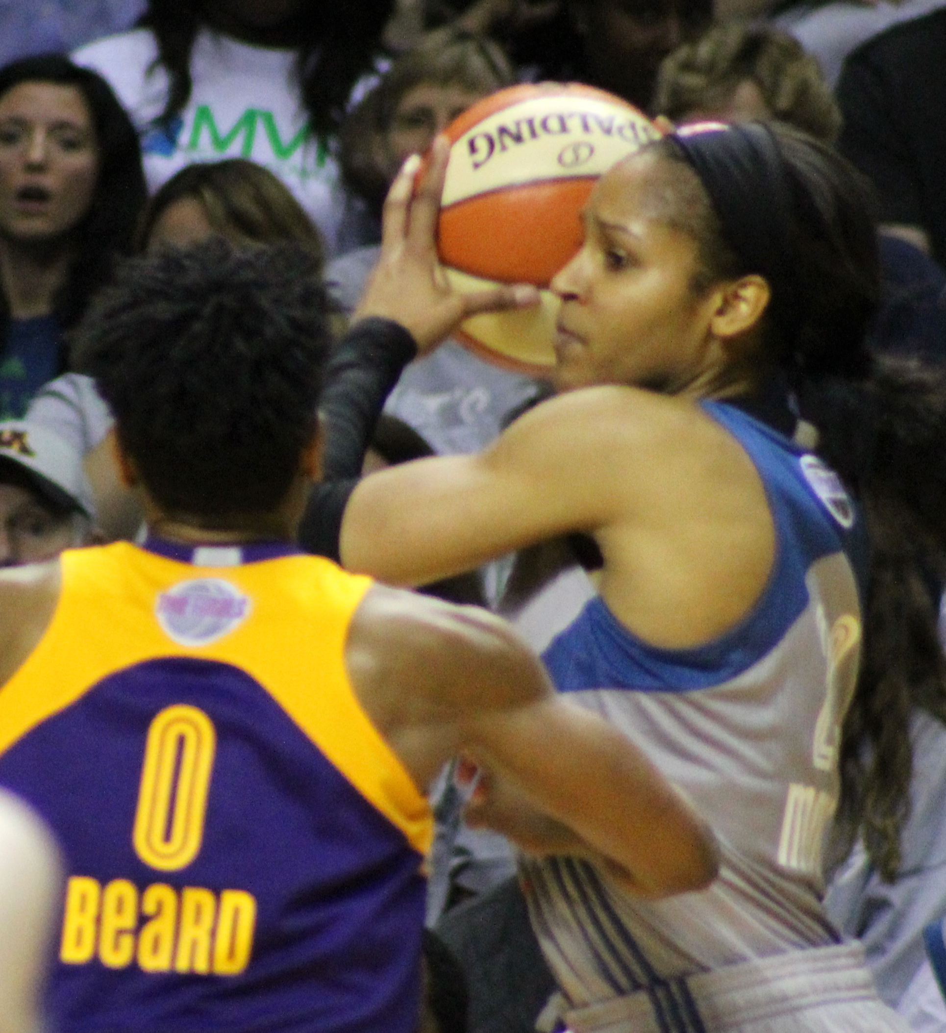 Alana Beard guarding Maya Moore in game 5 of the WNBA Finals